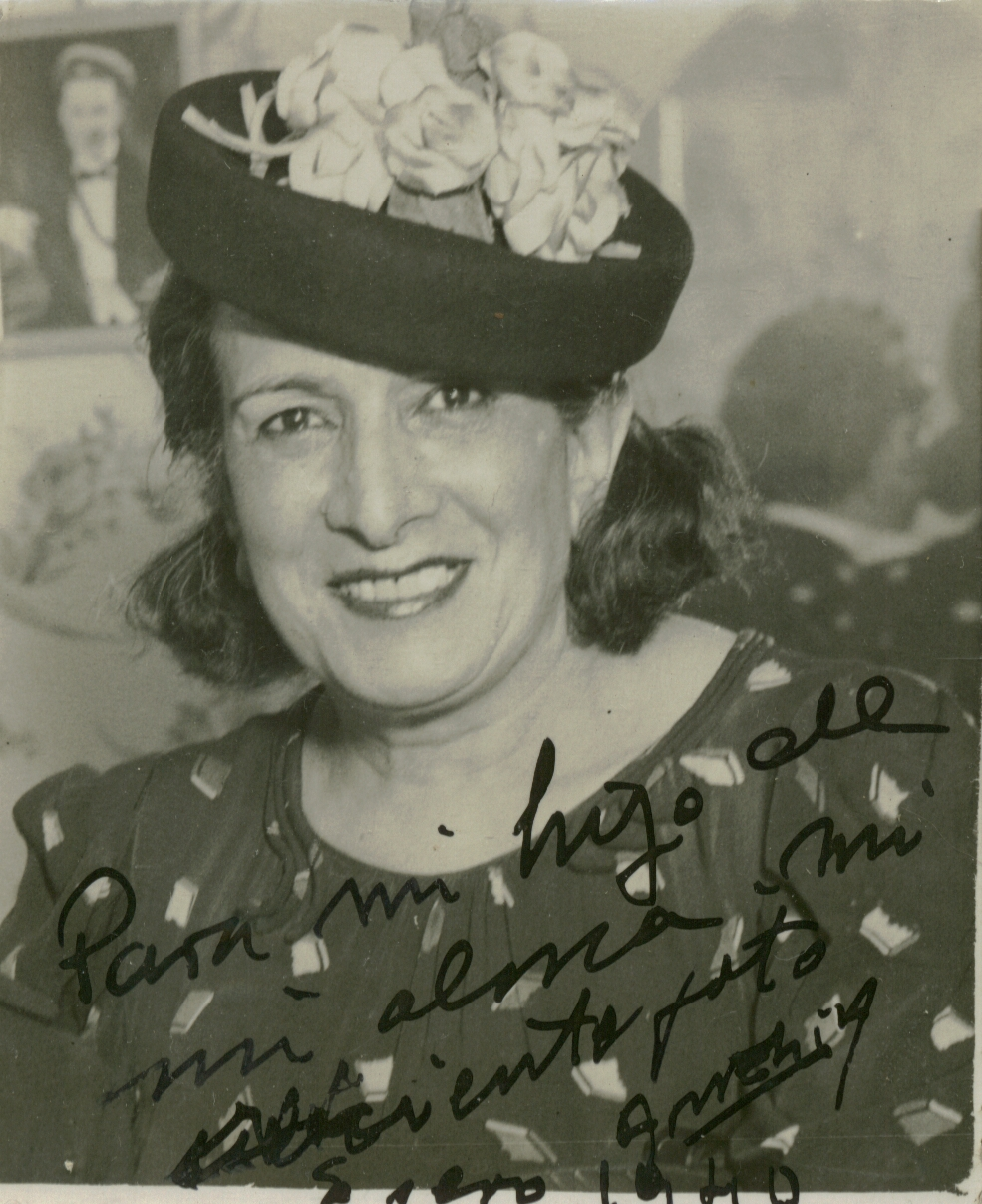 Amelia Monti Portrait signed by her self